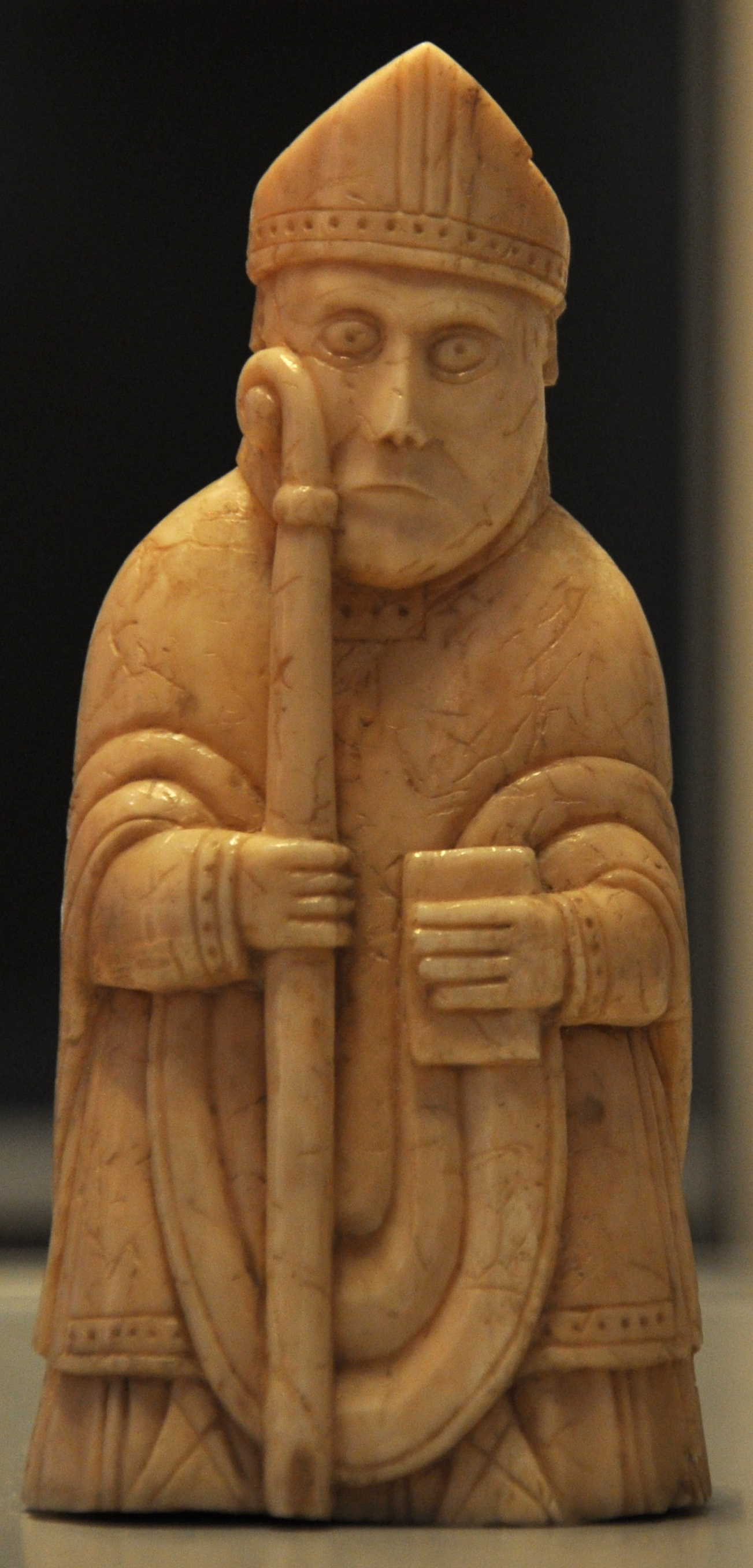 A bishop gaming piece of the so-called Lewis chessmen photographed at the British Museum. This image is a cropped version of: File:Lewis Schach Bischof 2 Hebriden 12 Jhd.JPG.